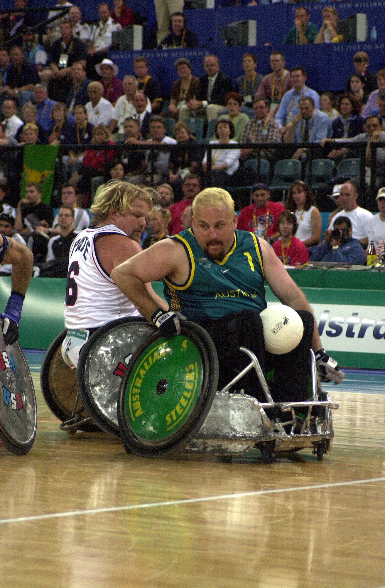 Action shot of Australian wheelchair rugby "Steelers" player George Hucks being pursued by USA player Stephen Pate during the gold medal match at the 2000 Sydney Paralympic Games against the United States